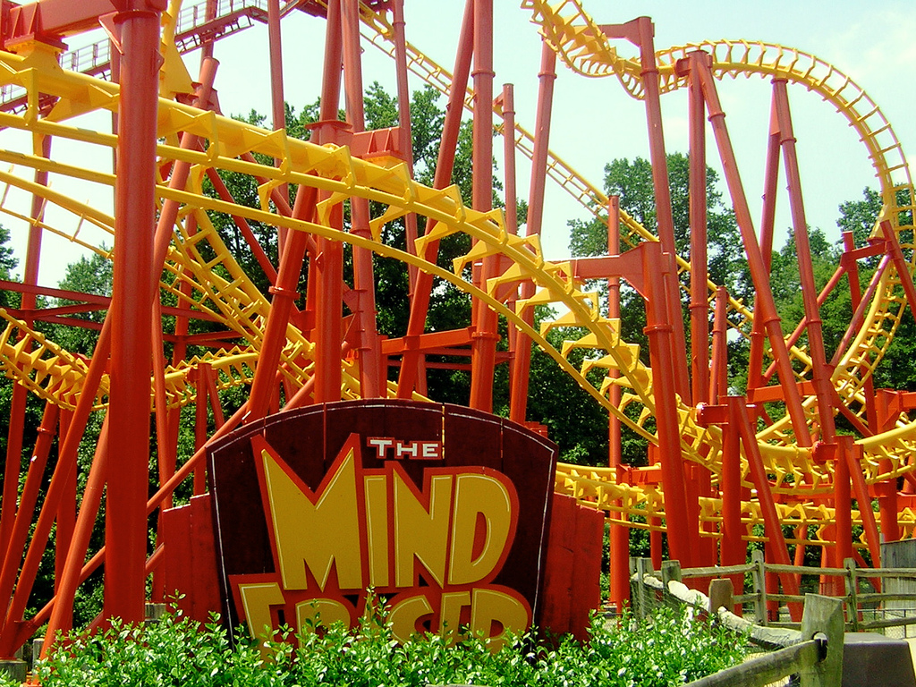 Mind Eraser roller coaster at Six Flags America.